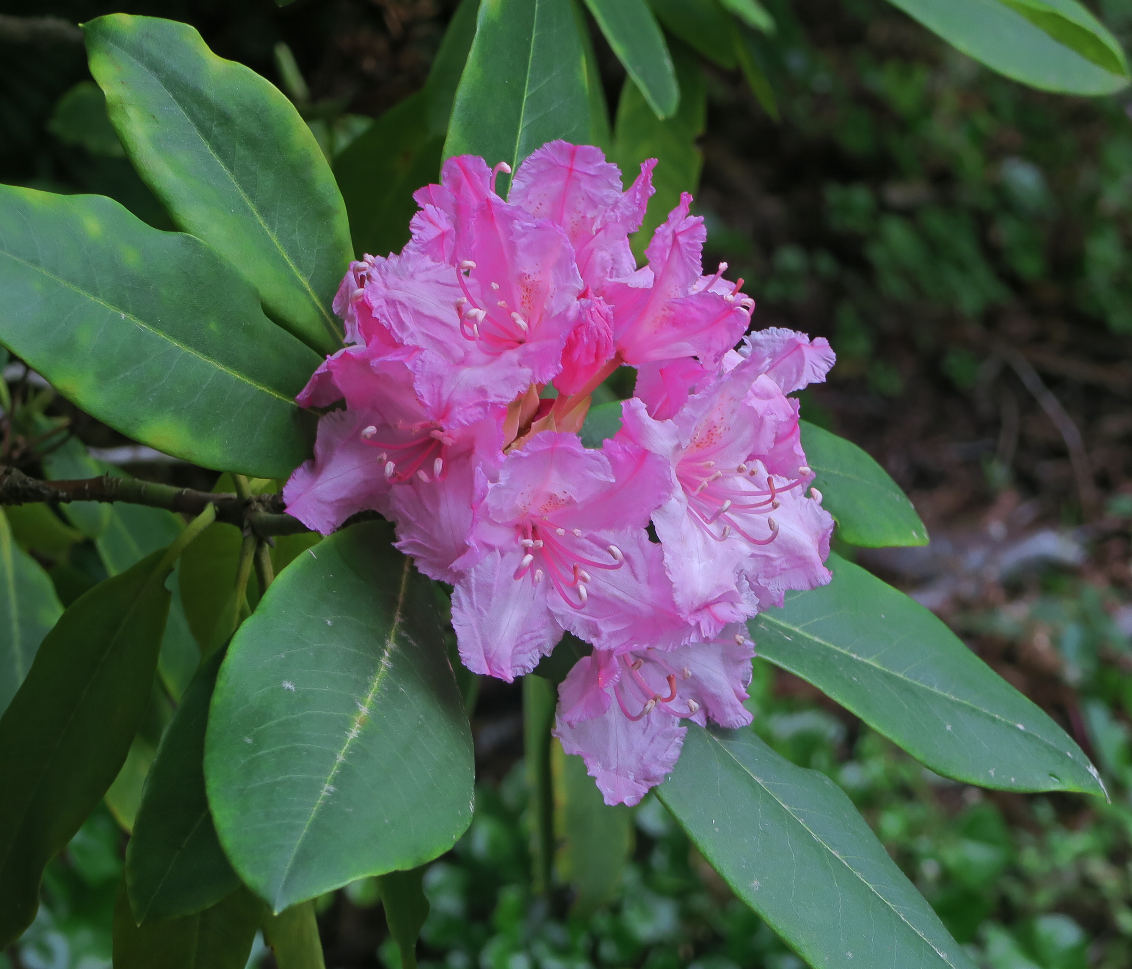 Rhododendron macrophyllum—Pacific rhododendron. One of the loveliest of all flowering shrubs, native or not. The state flower of Washington, first selected in a women's only election in 1892 preceding the 1893 Chicago World Fair and reconfirmed by legislation in 1948. Valued as a garden plant for its low water requirements. All rhododendrons are regarded as toxic by the California Poison Control System. Photographed at Regional Parks Botanic Garden located in Tilden Regional Park near Berkeley, CA.